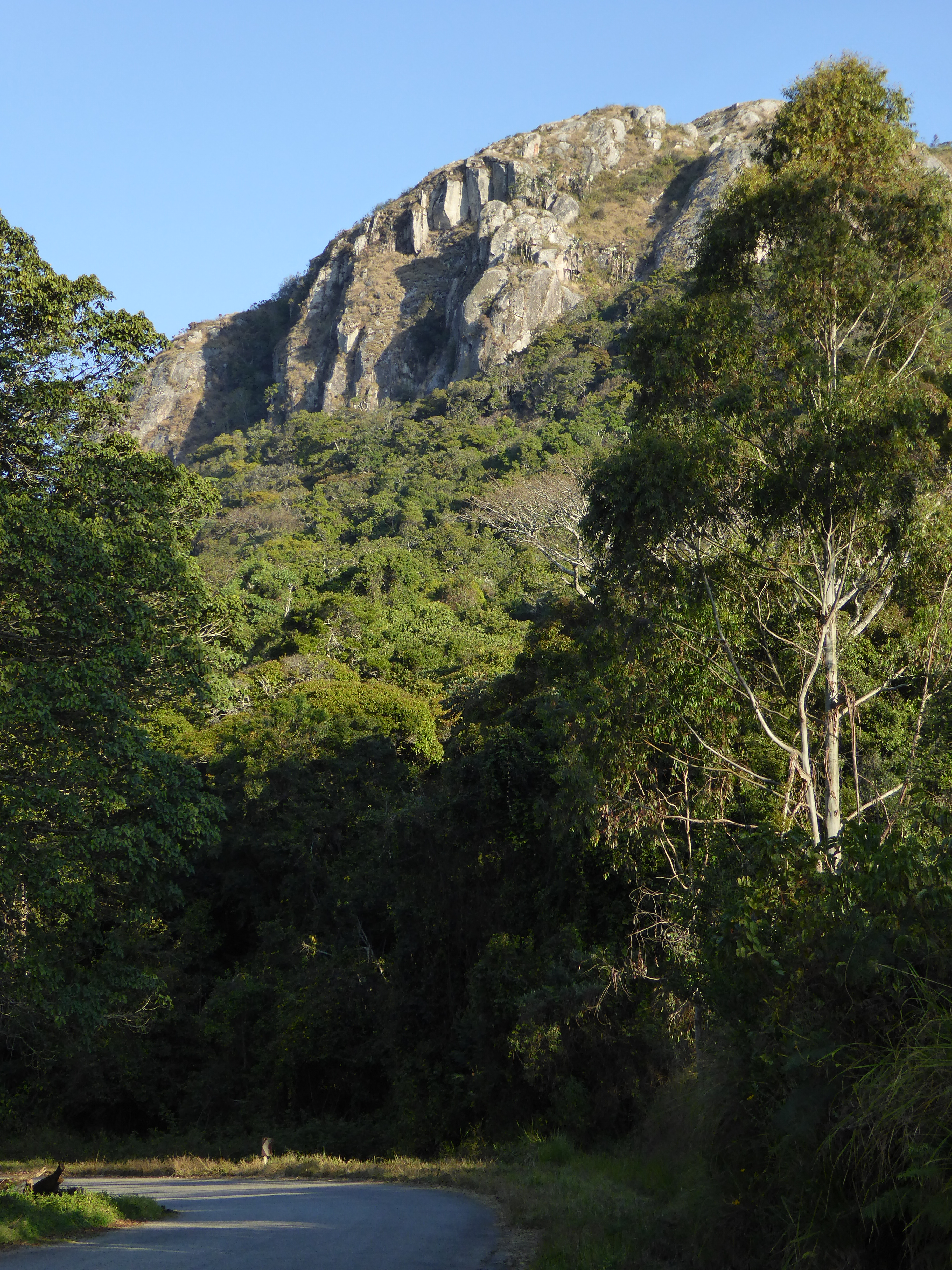 Granite rock at Bvumba mountains.